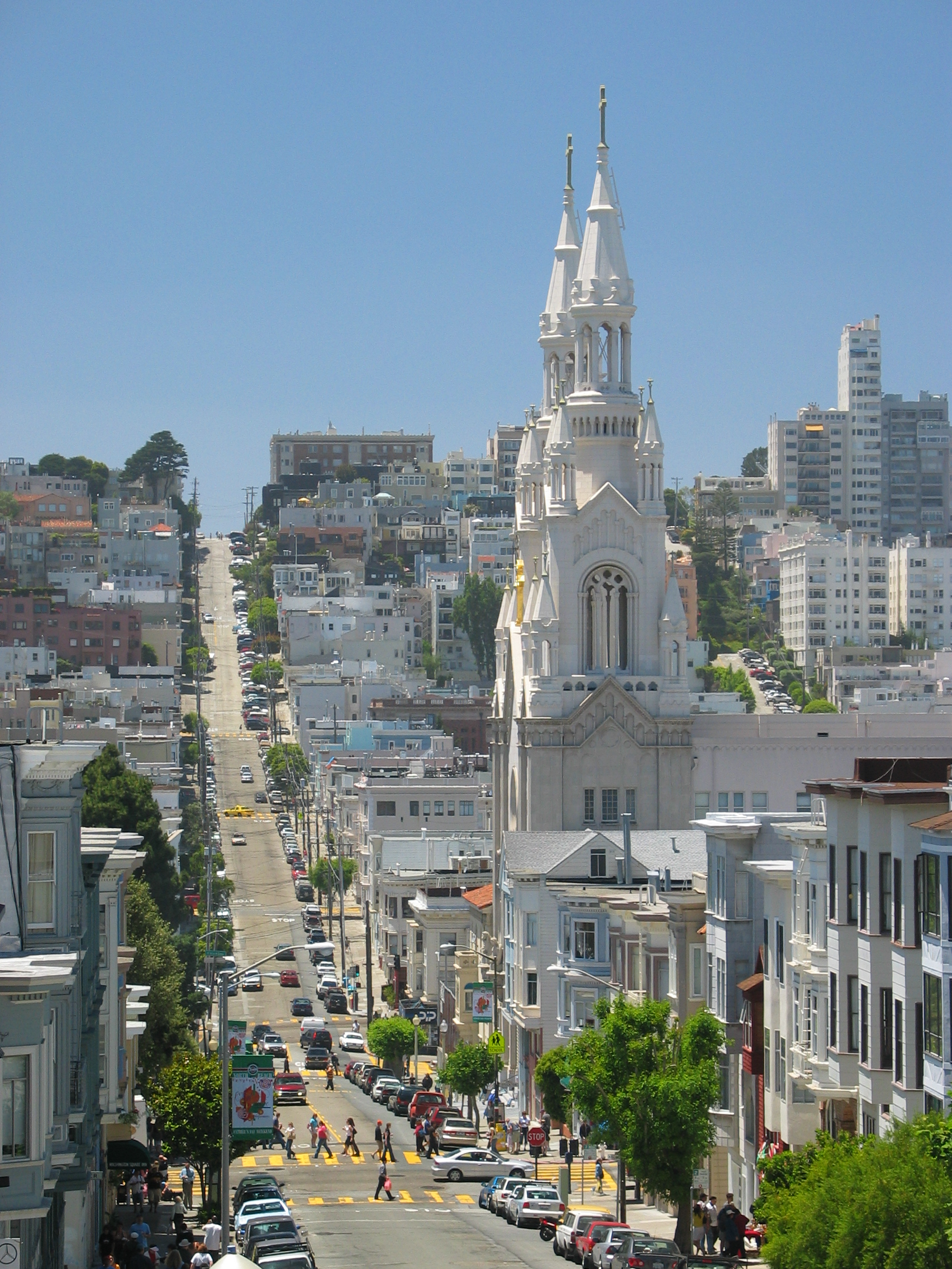 Looking down Filbert Street in North Beach, San Francisco. Saints Peter and Paul Church towers over the neighborhood.